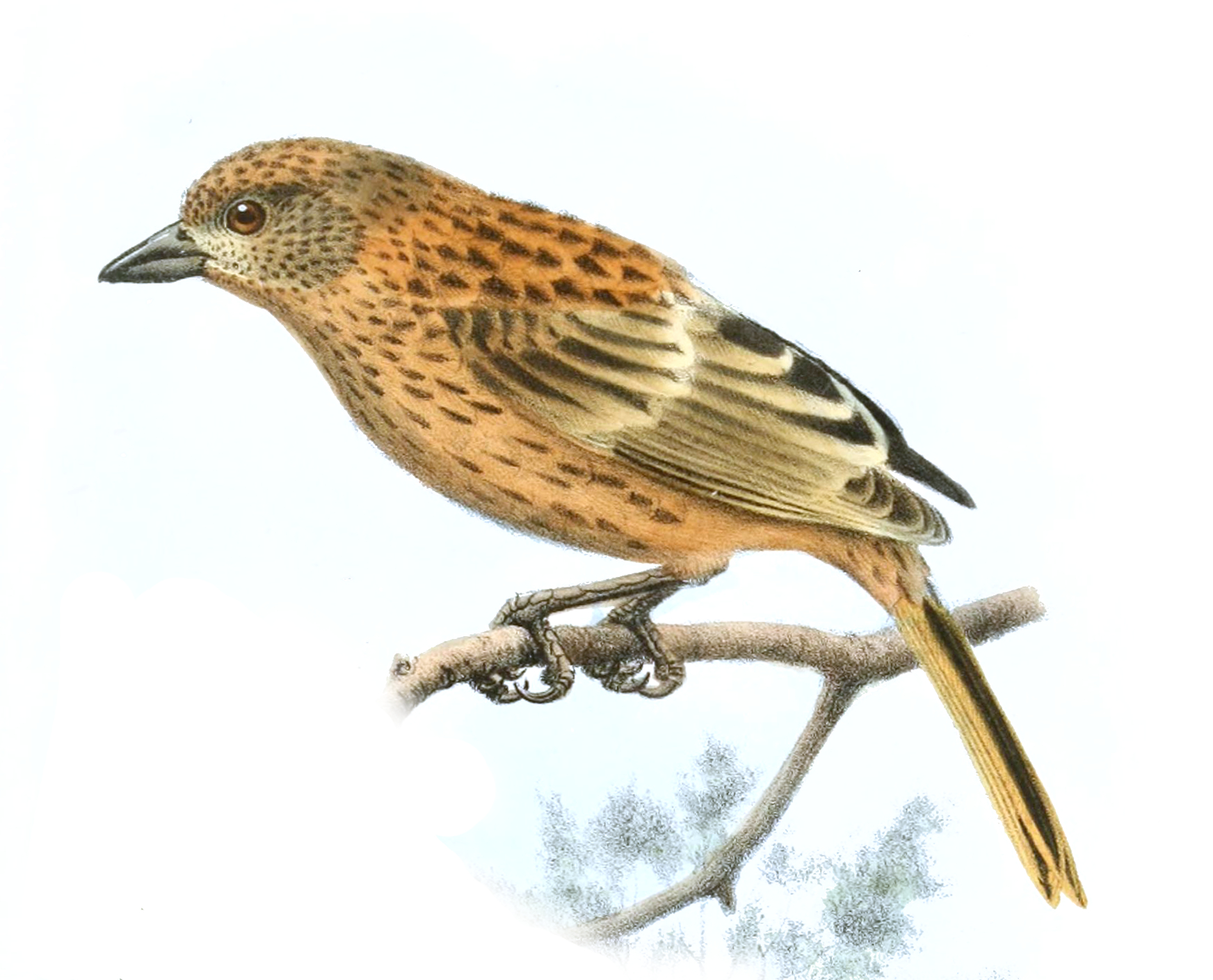 Nesospiza jessiae = Rowettia goughensis (immature bird)